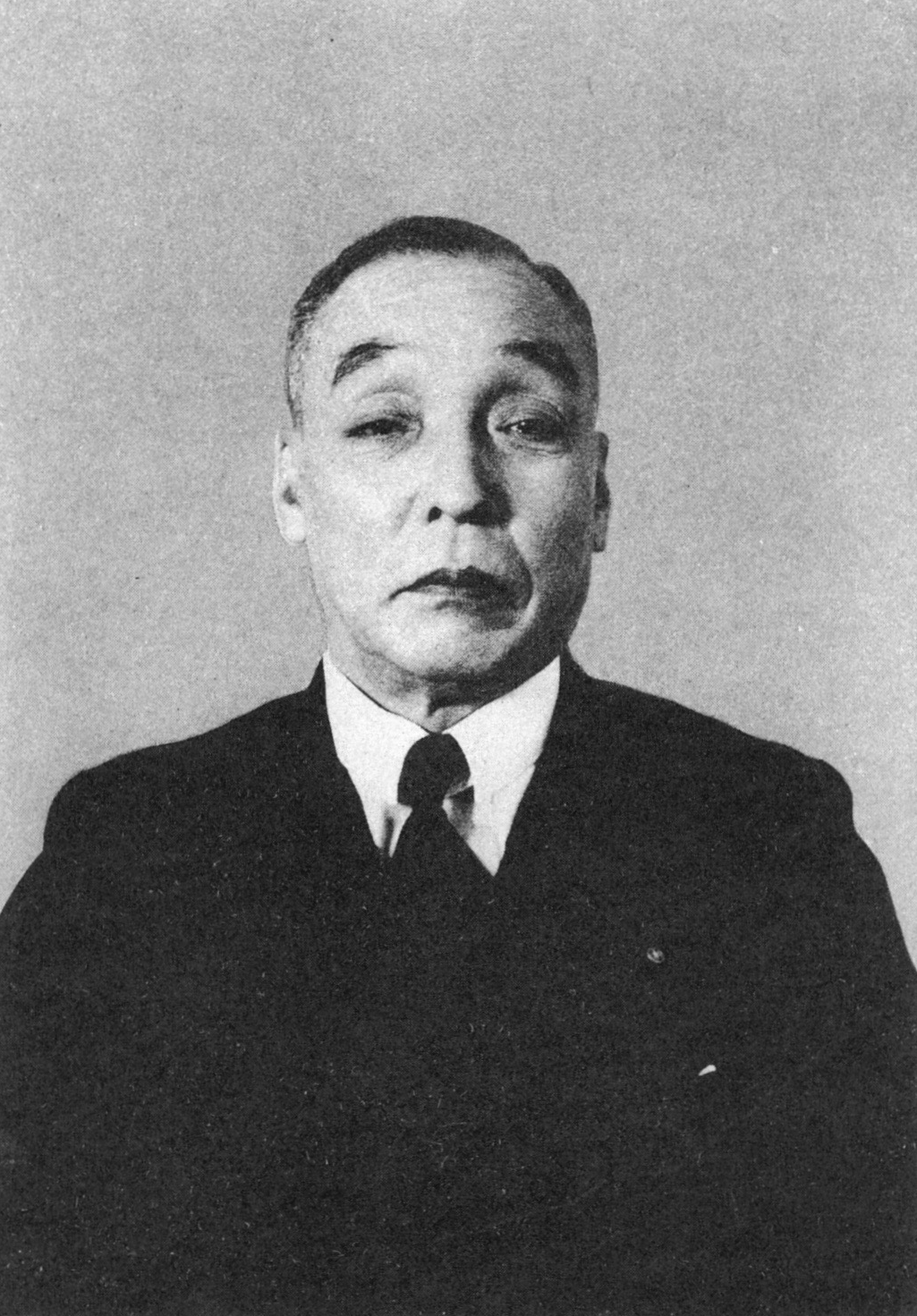 Jujiro Matsuda